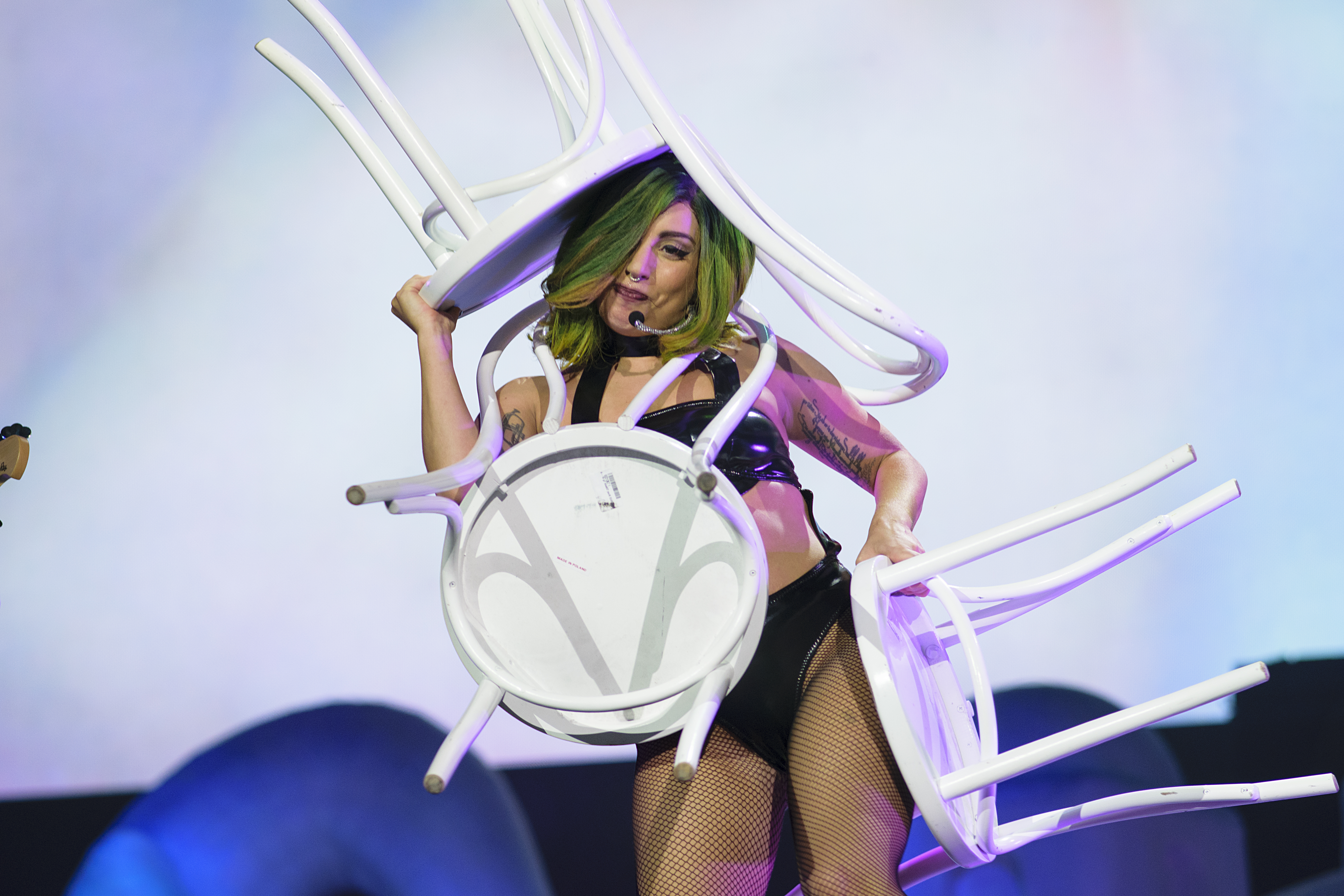 Lady Gaga performing the song "Mary Jane Holland" during the ArtRave: The Artpop Ball tour in the O2, in London.